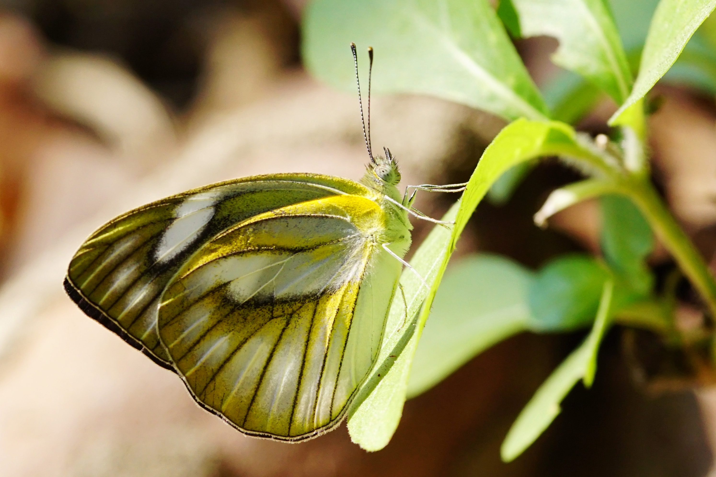 中文（台灣）: 鑲邊尖粉蝶 Appias olferna peducaea